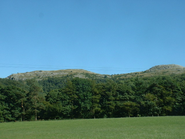 Bryn Alyn. This limestone mountain is a Local Nature Reserve - privately owned, but with public access.